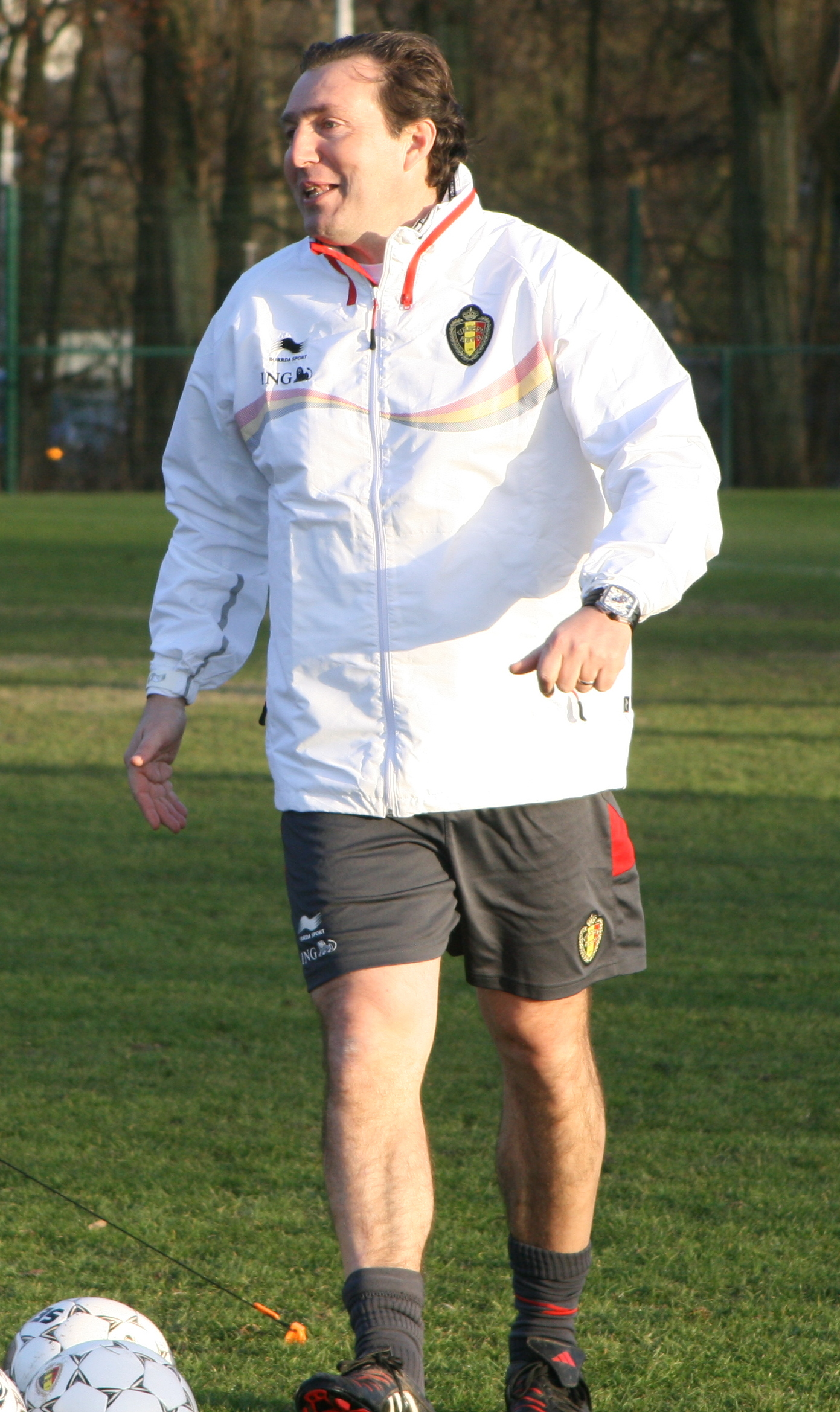 Marc Wilmots during a training session with the belgian Red Devils